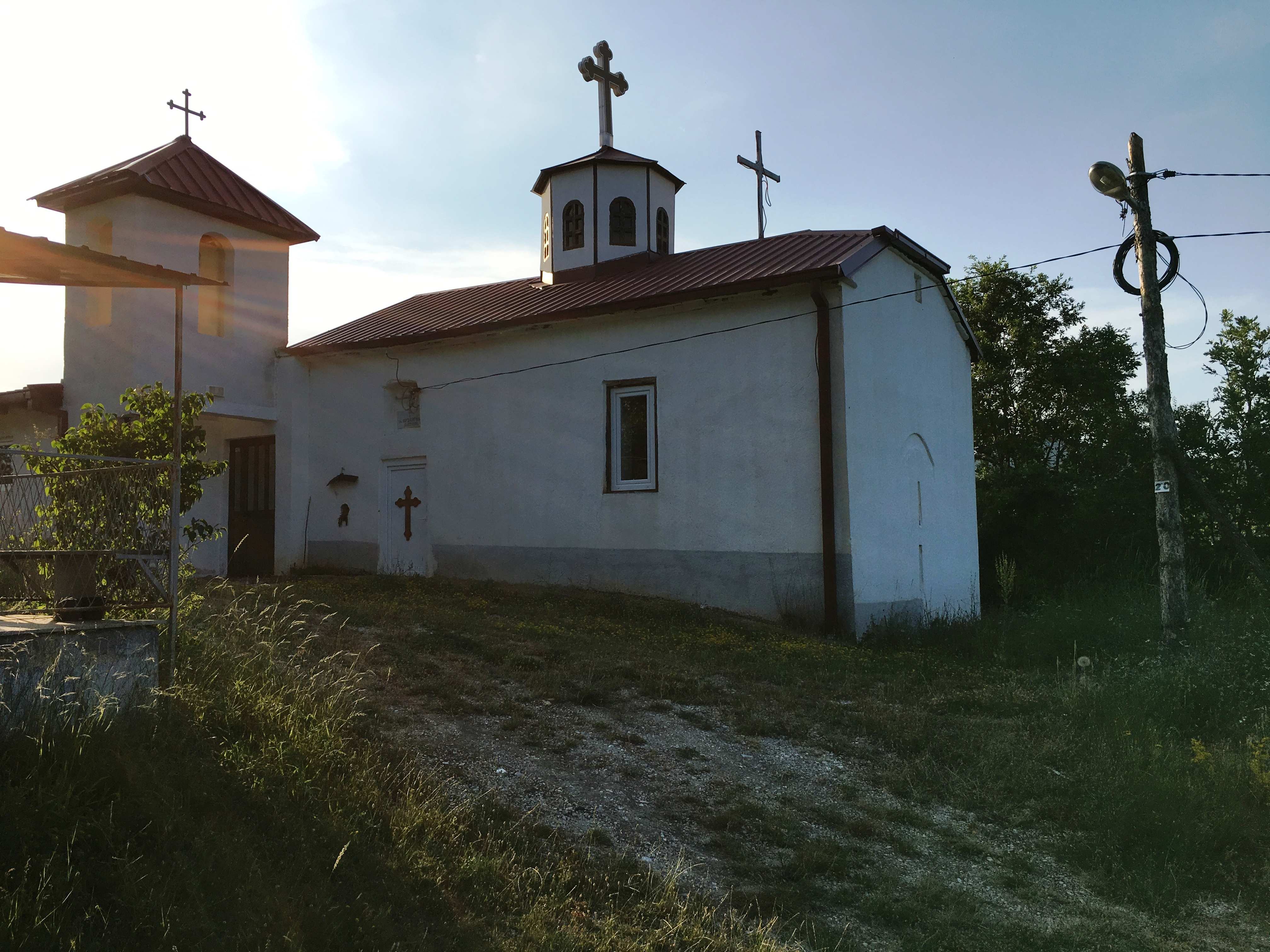 St. Michael the Archangel Church in the village of Mogilec